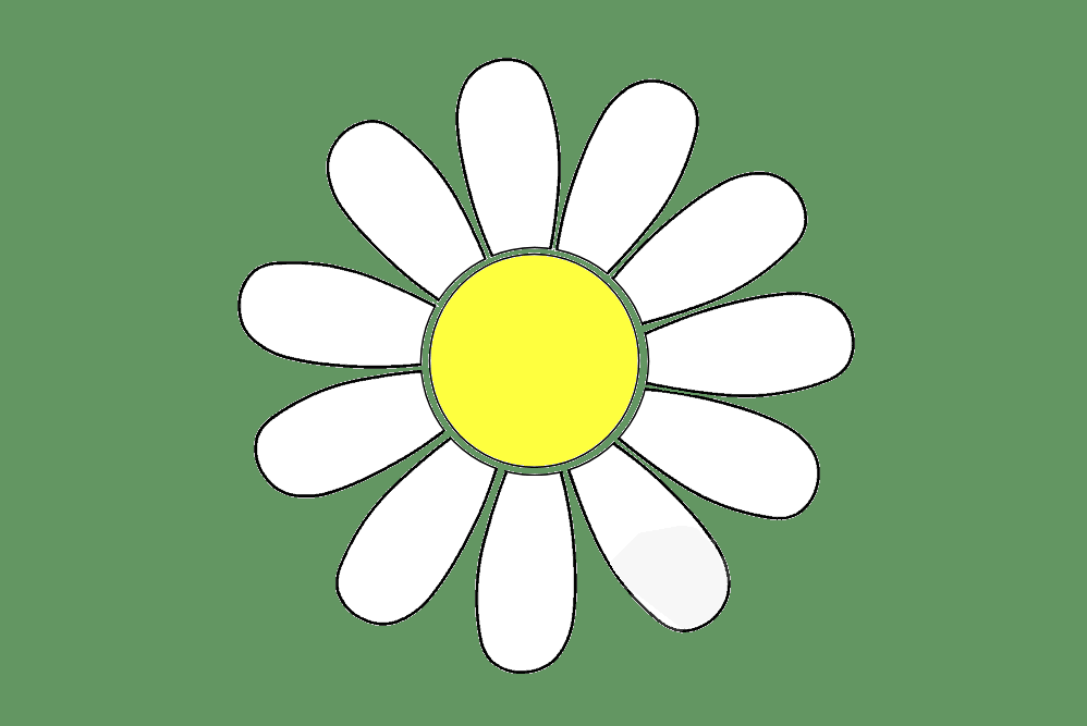 Personnal work (inspirated by archives of TV images)